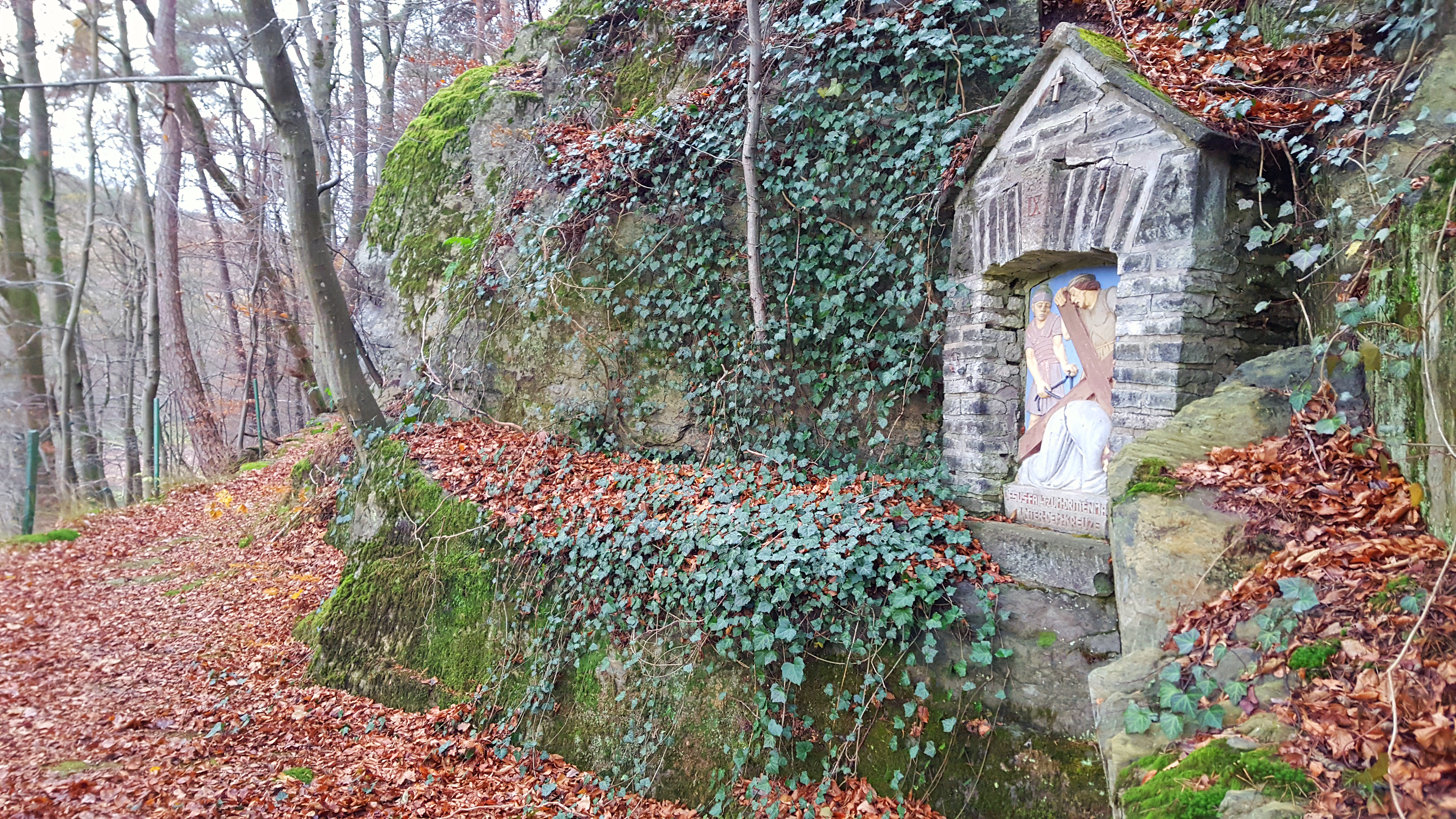 Kreuzweg oberhalb Marienstatts